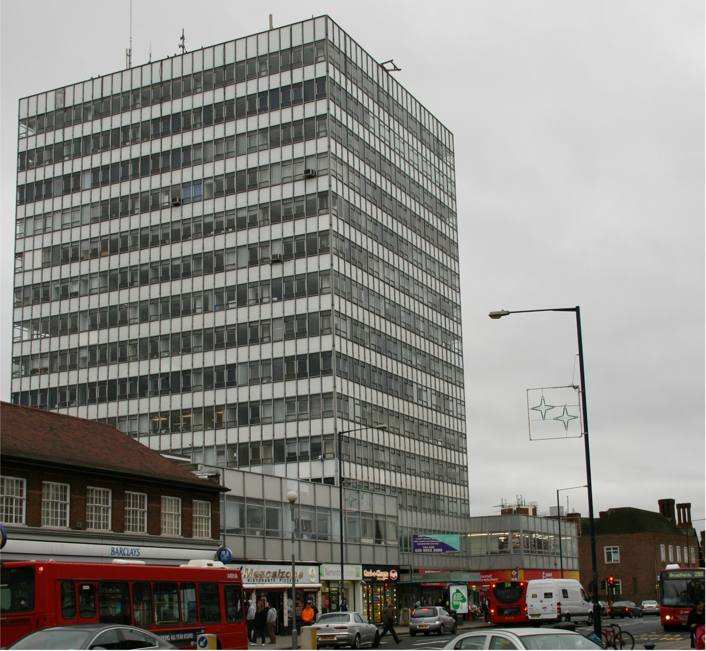 Looking towards Premier House, Station Road, Edgware, Greater London. Formerly known as Green Shield House.